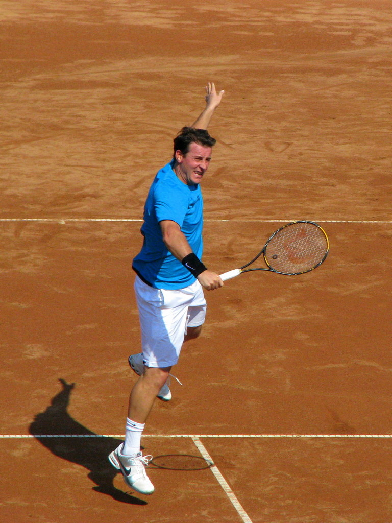 Romanian tennis player Andrei Pavel in mid air after having executed his famous backhand. This was the last singles match of his career, and took place at the Romanian BCR Open.